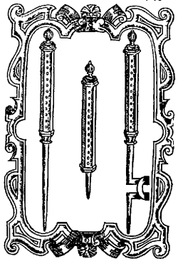 Engraving of needles used to prick suspected witches and so to determine their guilt